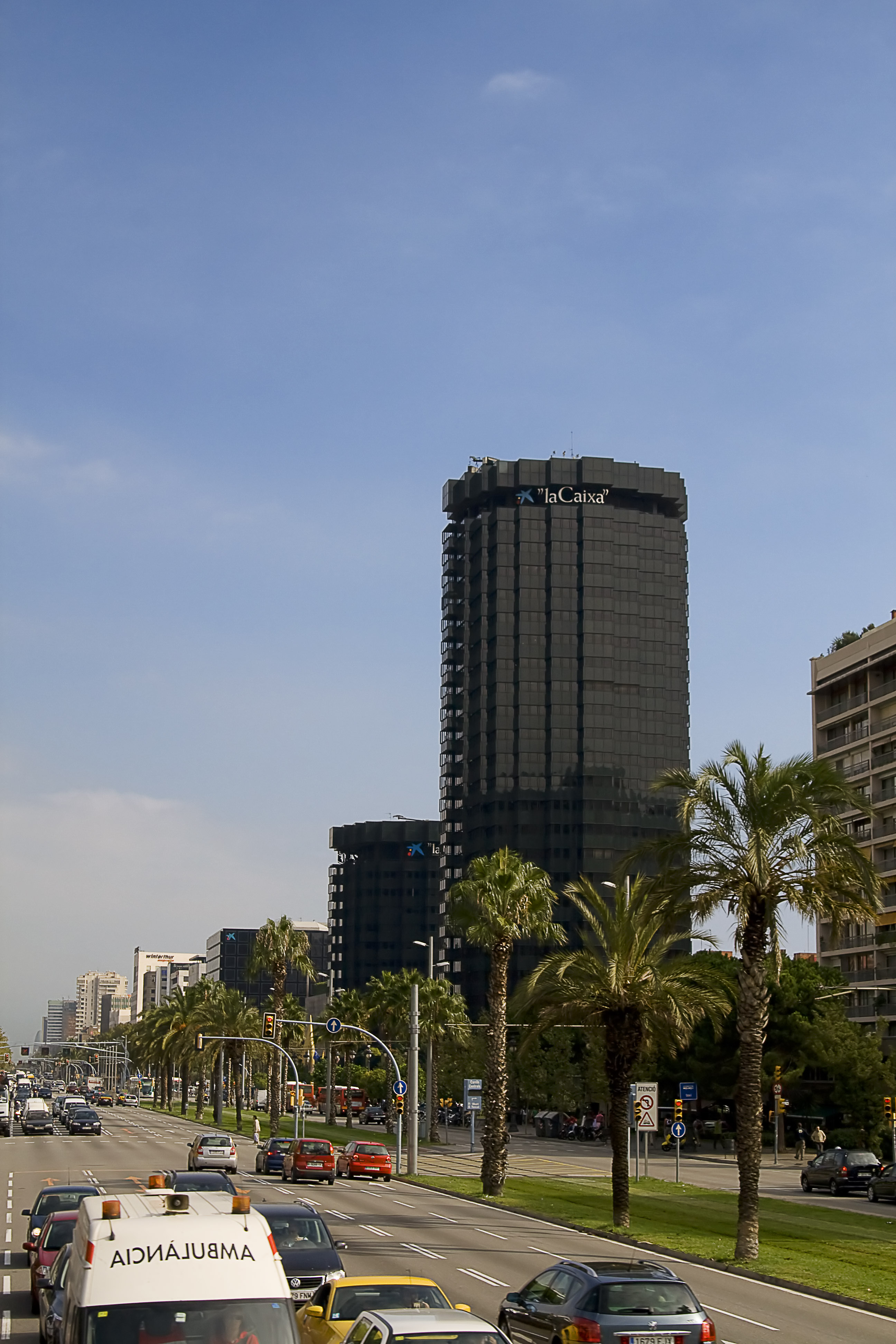 "La Caixa" towers in Barcelona.